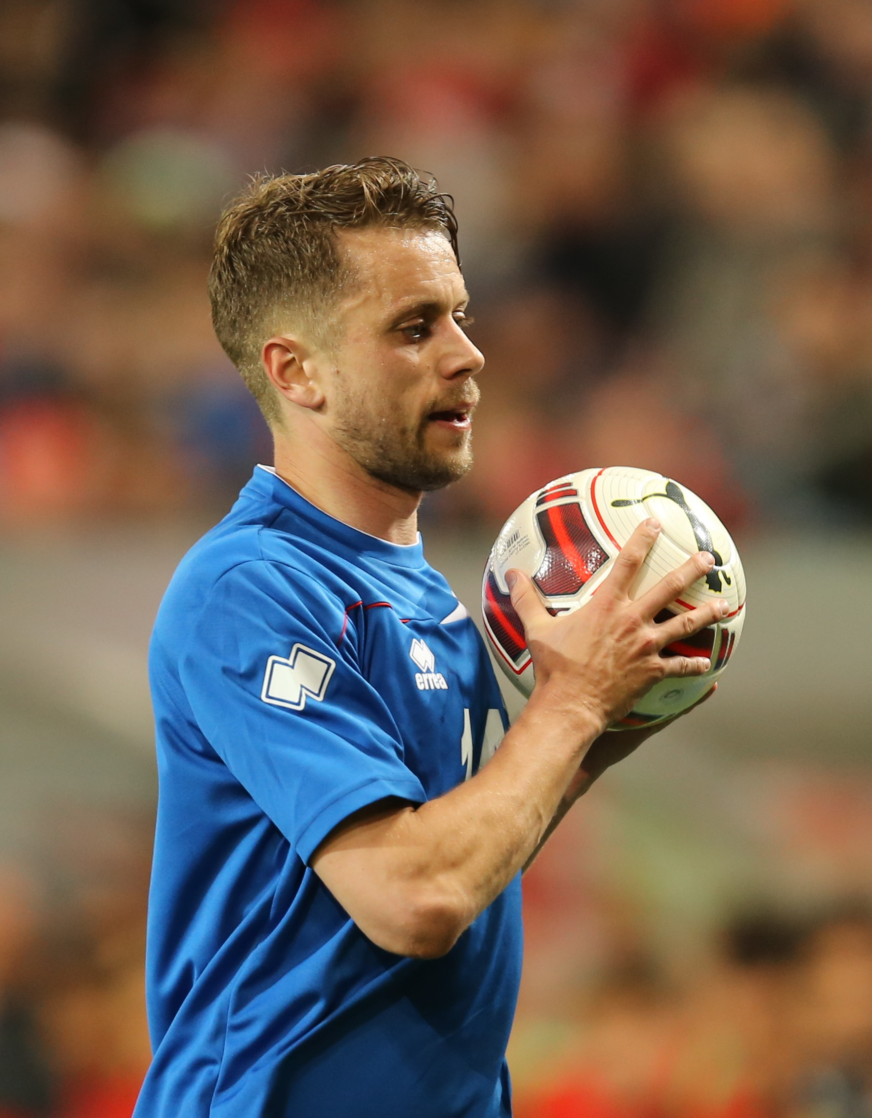 Austria - Iceland football match in Innsbruck, Austria on 2014-05-30. Austria in red, Iceland in blue.